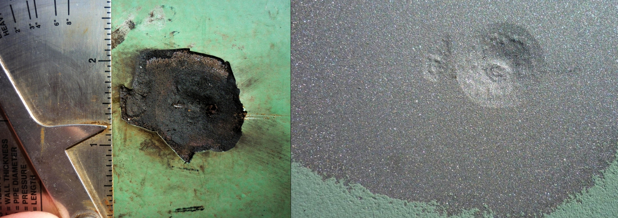 Corrosion pit before and after abrasive blasting. The structure is a buried steel pipeline carrying natural gas.